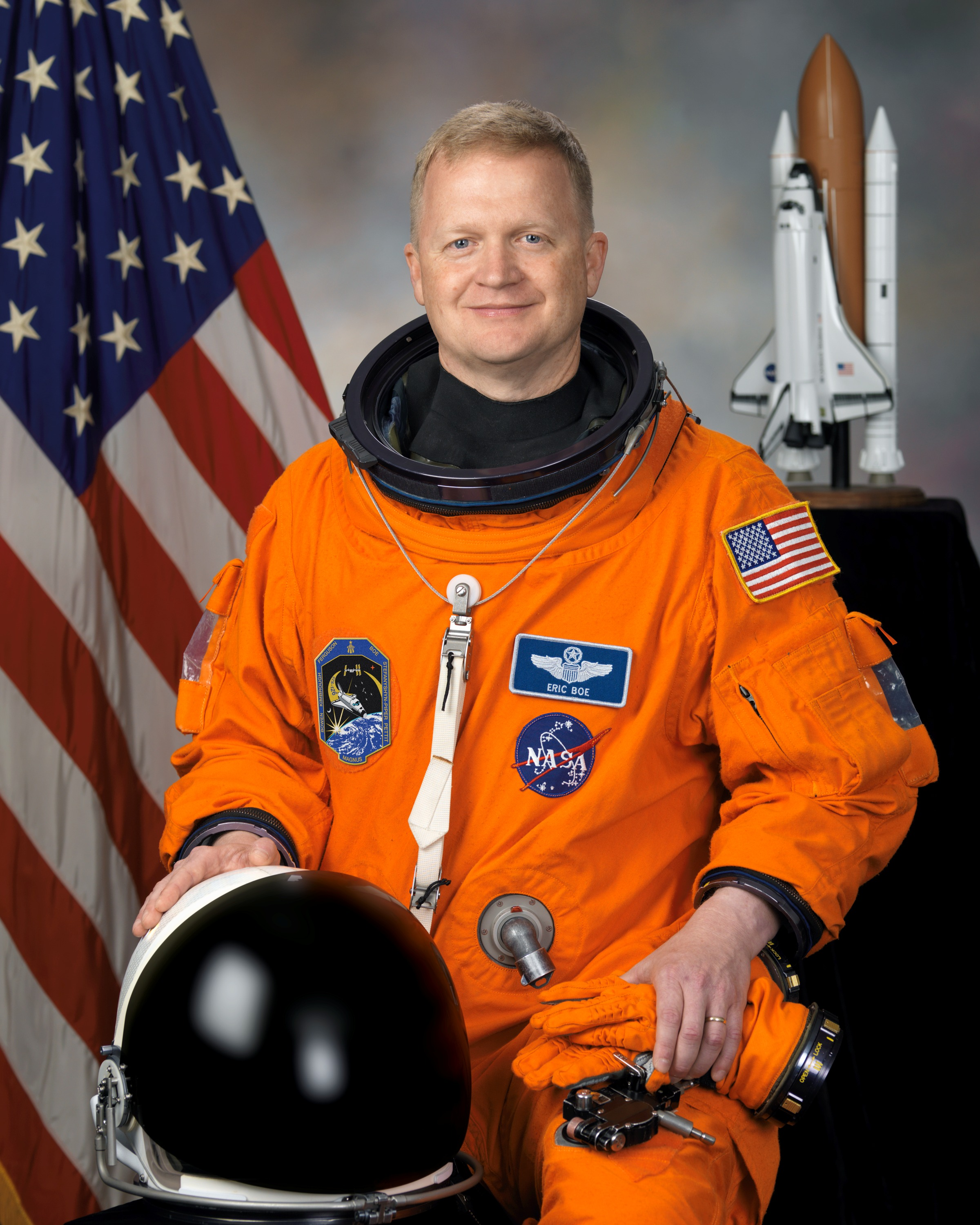 Official portrait image of NASA astronaut Eric Boe.